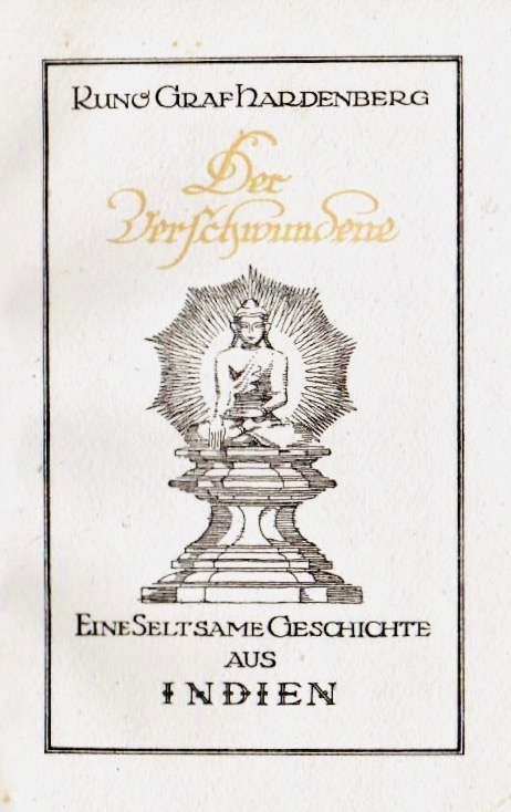 Book title Der Verschwundene from 1920 by Kuno Ferdinand Graf von Hardenberg (1871–1938).